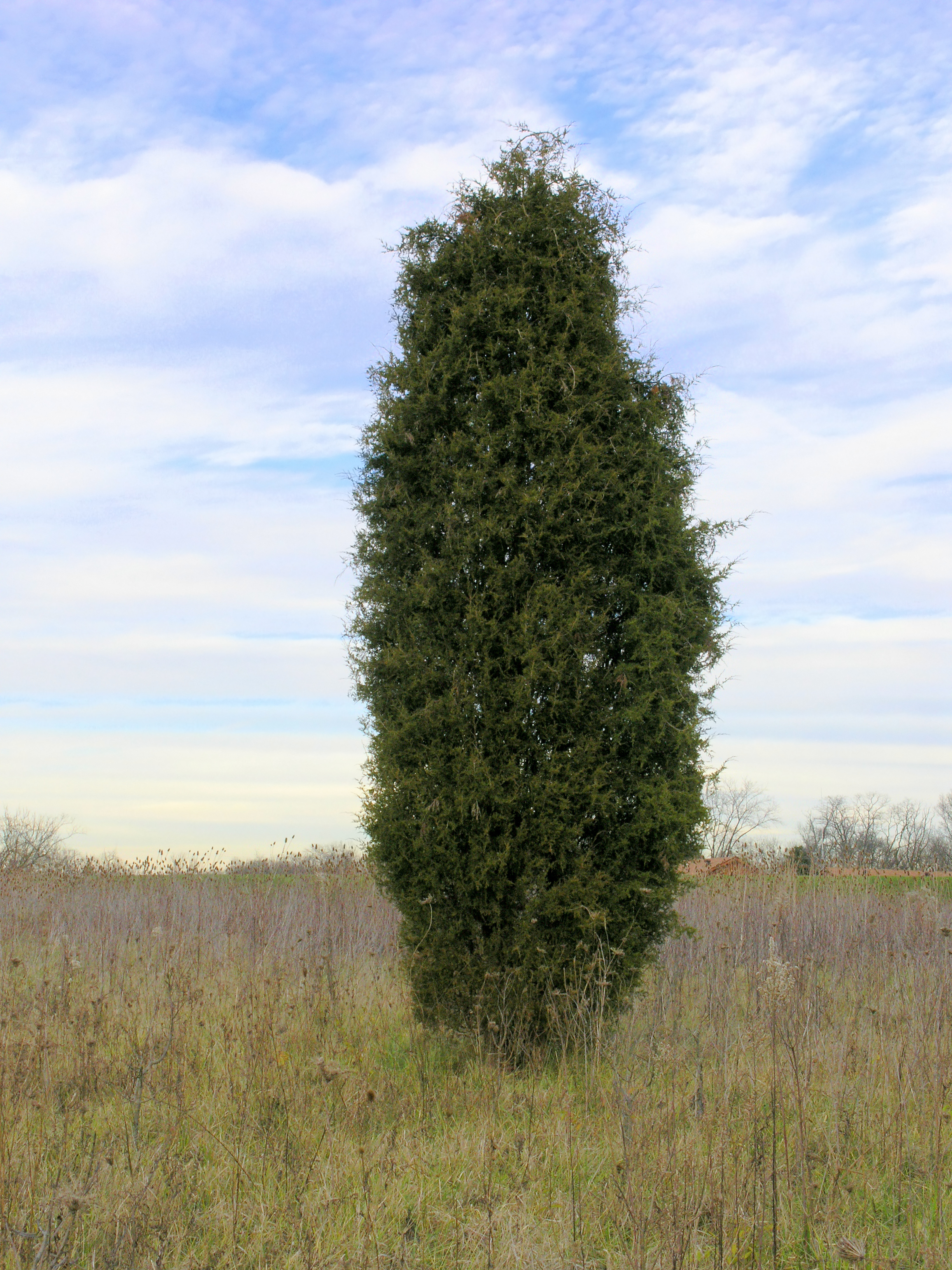 Eastern Juniper Juniperus virginiana old field succession near Oxford, OH.